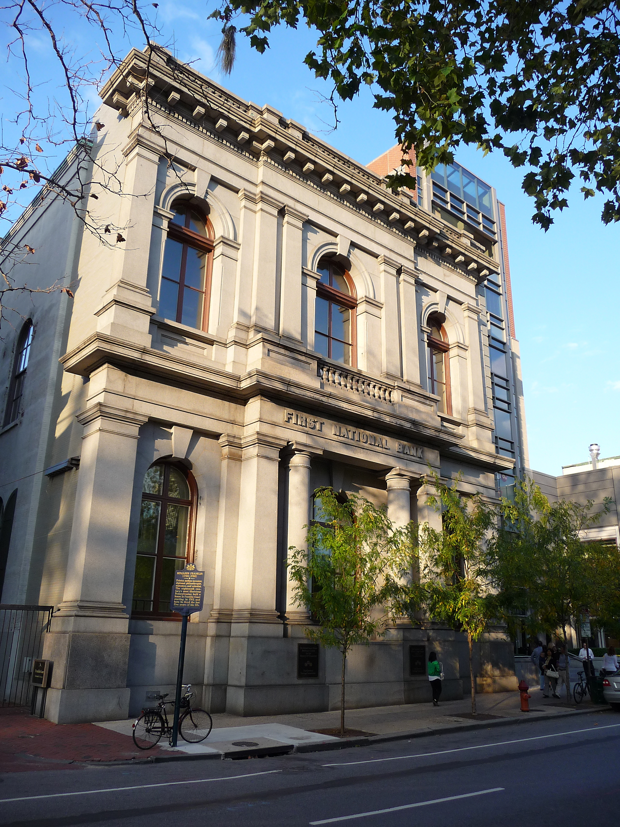 This is the exterior of the First National Bank building, 315 Chestnut Street, Philadelphia, Pennsylvania. Built in 1865 and designed by architect John McArthur, Jr., the building became the home of the Chemical Heritage Foundation. The institution was renamed the Science History Institute as of February 1, 2018.